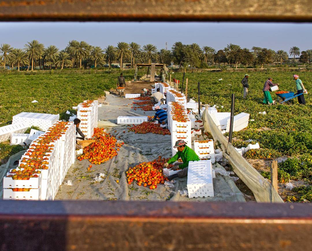 Collecting tomatoes, Qatif.